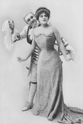 A promotional photograph in Theatre Magazine featuring the vaudeville actress and silent film star Laura Nelson Hall in the play Everywoman by Walter Browne with music by George Whitefield Chadwick. The play premiered at the Herald Square Theatre in New York on 27 Feb 1911.